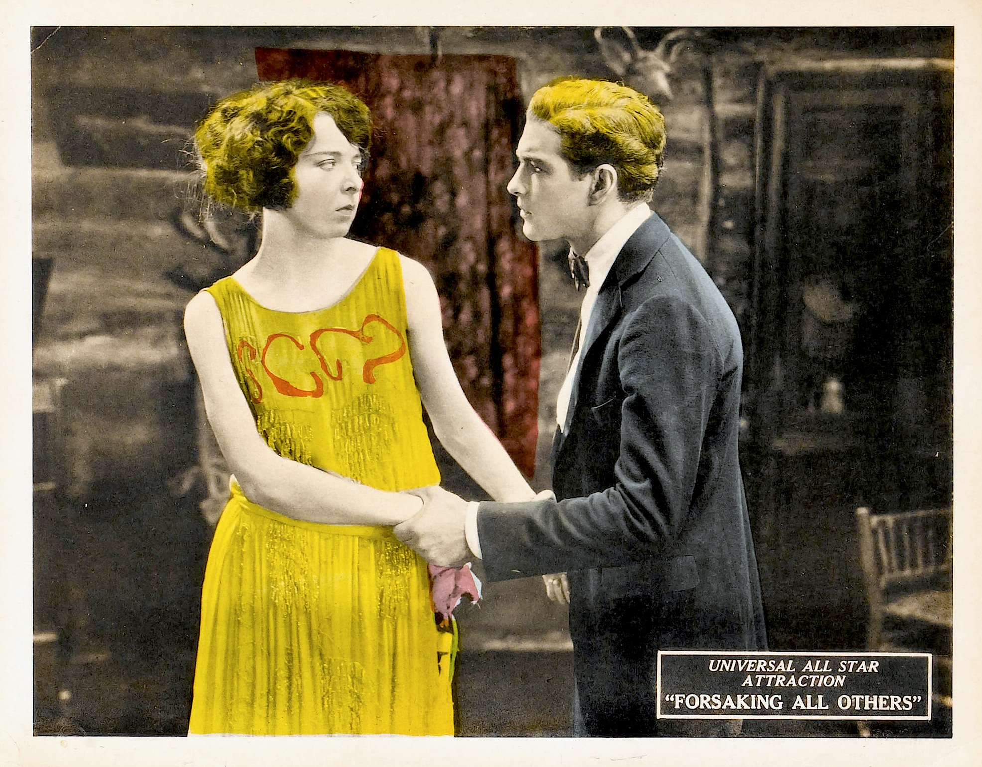 Forsaking All Others is a 1922 American dramatic film starring actress Colleen Moore and directed by Emile Chautard for Universal Studios. This is a lobby card for the film.